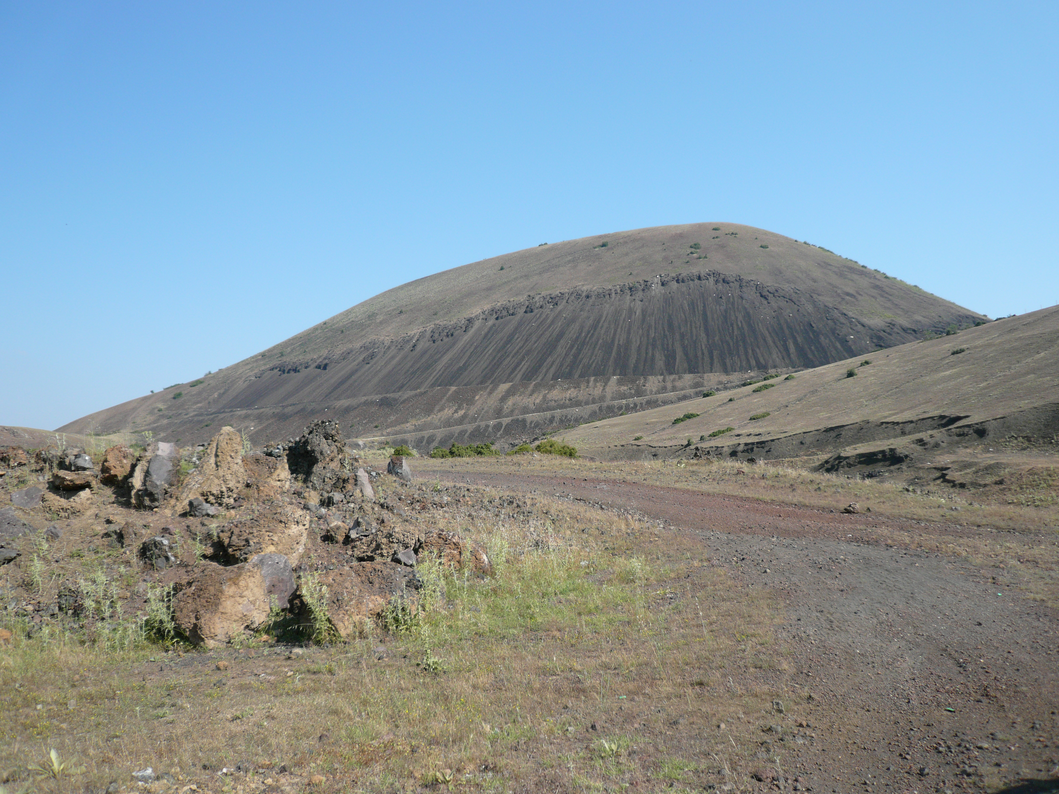 A cinder cone of the Kula volcanic field — in the Kula District of the Aegean Region of Turkey. Located within Manisa Province, western Anatolia.